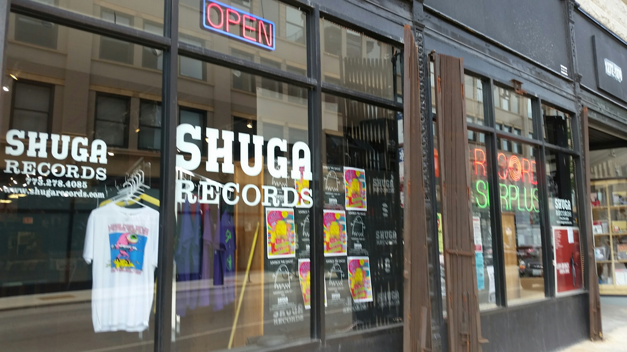 Shuga Records Storefront